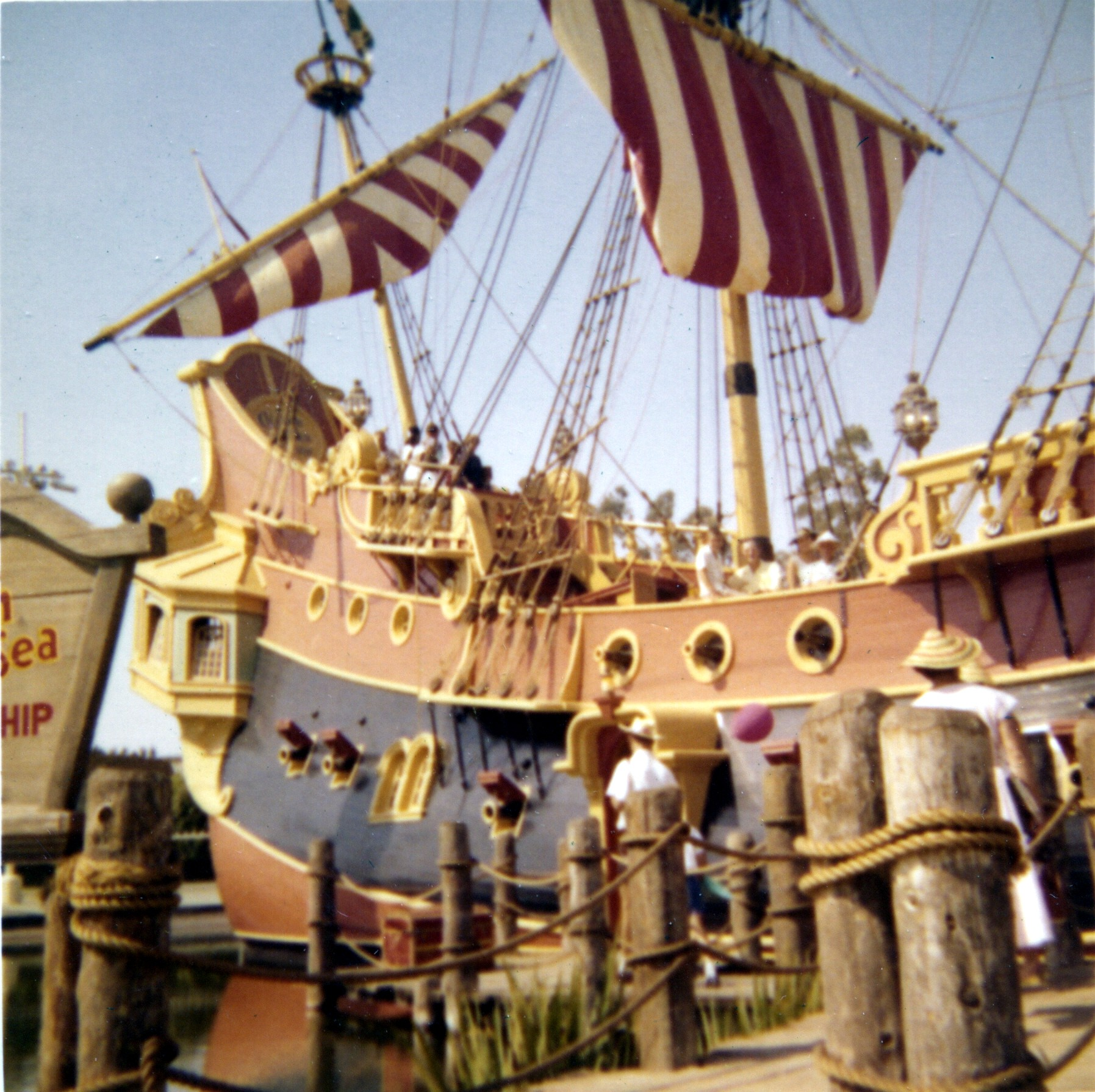 Pirate ship in Fantasyland at Disneyland, circa 1957-1958.